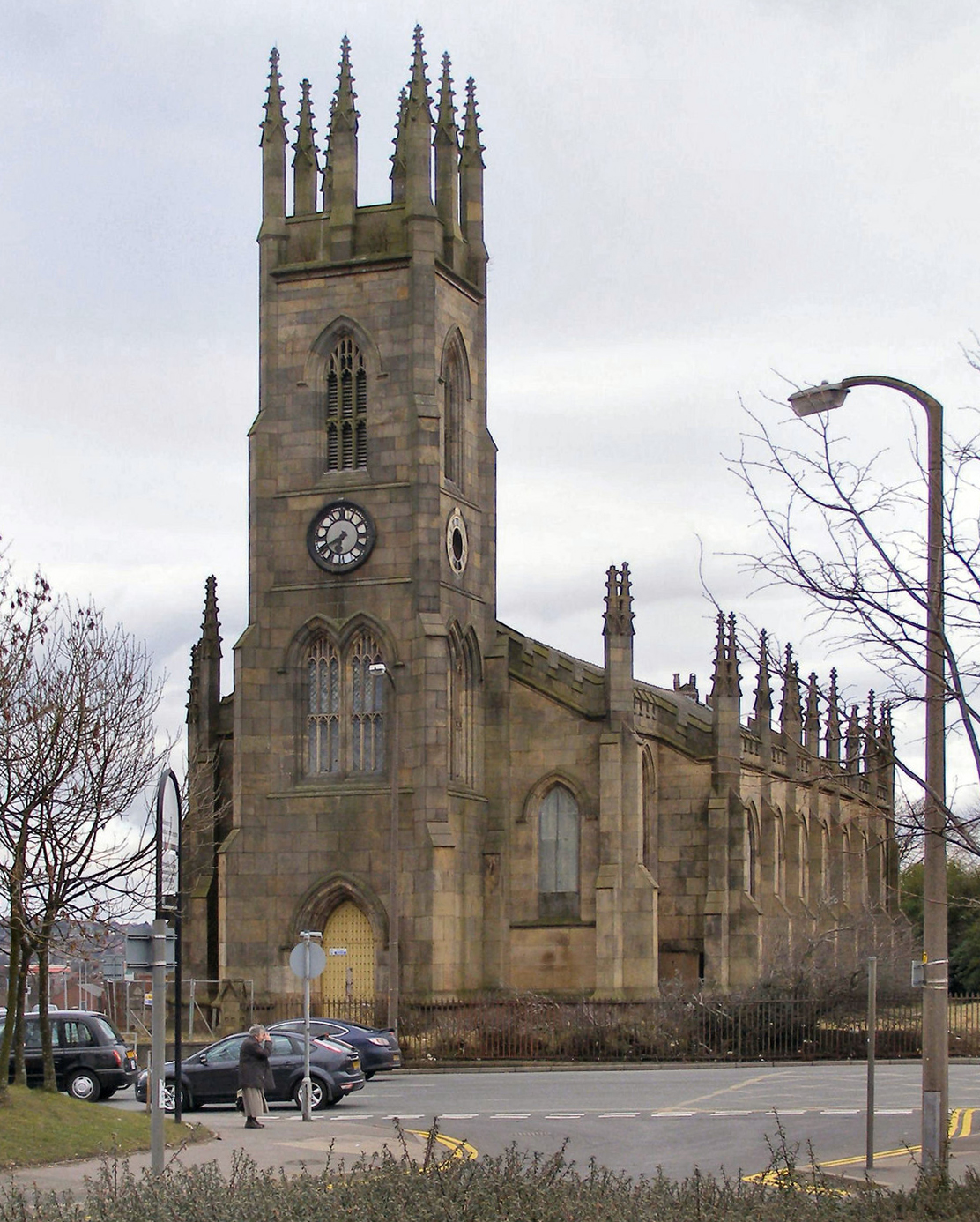 The former Holy Trinity parish church, Bolton, Greater Manchester, seen from the west across Thynne Street. The church has been redundant since 1993 and is now in a dangerous condition inside.